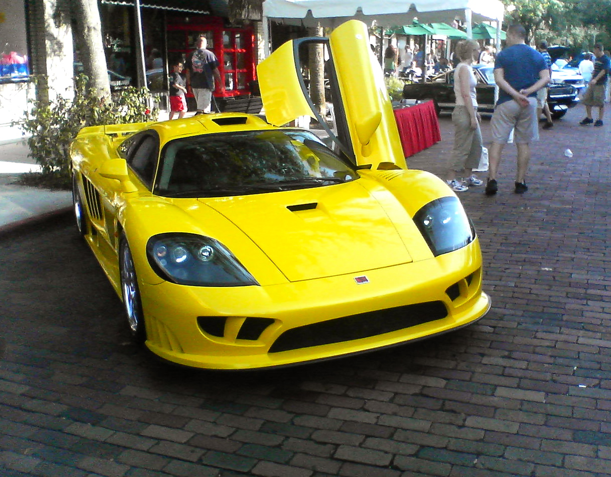 Yellow Saleen S7 Concours d'Elegance Winter Park Florida sports car supercar american